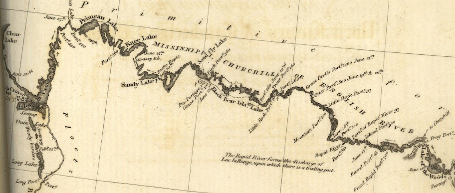 This is a portion of the map described below. Route of the Expedition from York Factory to Cumberland House and the Summer & Winter Tracks from thence to Isle A La Crosse in 1819 & 1820 (1823) Franklin, John. Route of the Expedition from York Factory to Cumberland House and the Summer & Winter Tracks from thence to Isle a la Crosse in 1819 & 1920 [map]. Scale not given. In: John Franklin. Narrative of a Journey to the Shores of the Polar Sea, in the Years 1819, 20, 21, and 22. London: John Murray, 1823. Shows the places where an Observation for Latitude was taken. Figures at the portages express the distance in yards. Captain John Franklin’s two land expeditions to the Arctic traveled through the area which today is Manitoba, and added substantially to the scientific knowledge of both the northern and southern parts of the province. On the this map showing the Franklin expeditions’ journey in 1819 from York Factory to the Saskatchewan river there are comments on vegetation, depth of soil, and the fact that the bedrock is of a Primitive age. This is probably the first recording of the relative ages of rocks on any published map of the Manitoba area. Progress of the expedition can be easily followed since all the camping places are marked. On these maps we see the first results of the application of scientific knowledge by experienced scientific observers to the recording of data on the West. The base maps were from Arrowsmith, but in turn Arrowsmith and other cartographers obtained important information from the Franklin’s Expeditions. (Warkentin and Ruggles. Historical Atlas of Manitoba. map 81, p. 206) Related Map: Route of the Expedition from Isle a la Crosse to Fort Providence in 1819 & 20 (1823)